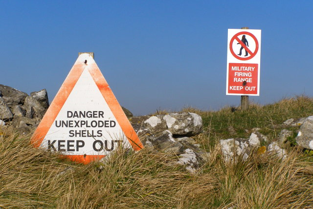 Warning signs, west of Tyneham Cap These warning signs are typical of those found throughout the Lulworth Range, alongside the waymarked Range Walks. Apparently there have been very few instances of civilians being injured by ordnance on the Lulworth range (something to do with fossil hunters in a quarry) - the Range Walks are checked for hazards by the MOD before they are opened to the public. The gunnery generally goes on to the north of the Purbeck chalk ridge, but there is danger of ricochet in this area to the south.